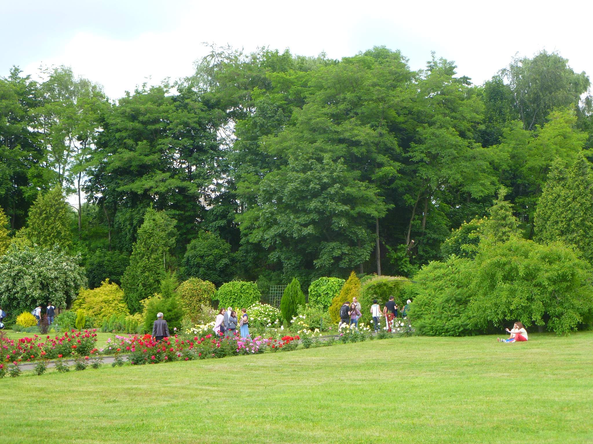 Botanical garden in Lviv